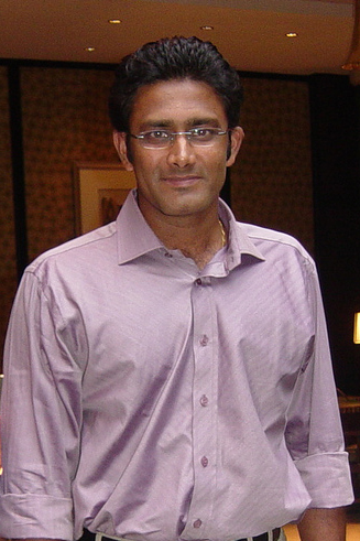 Edited version of original image depicting popular Indian cricketer Anil Kumble.